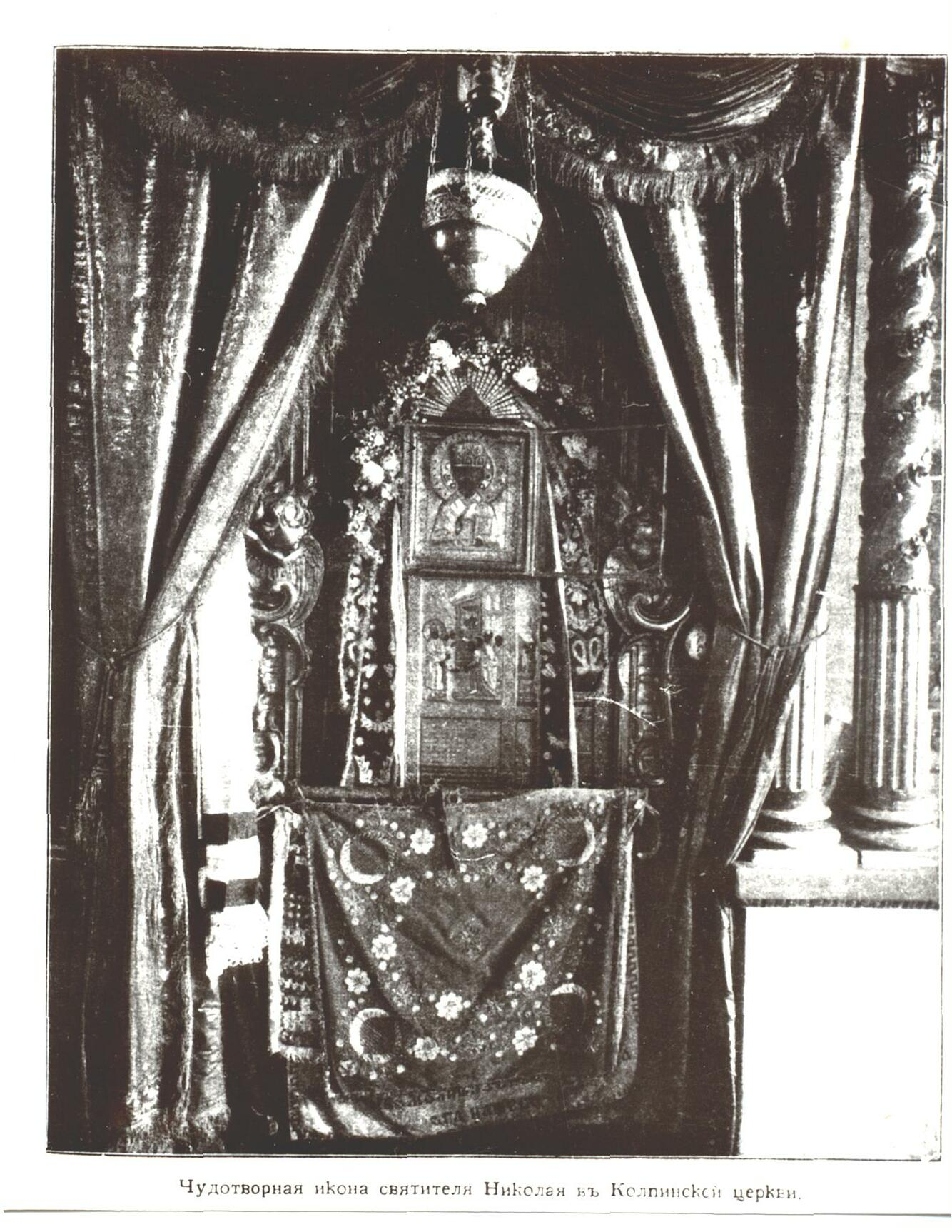 Kolpino (Russia)